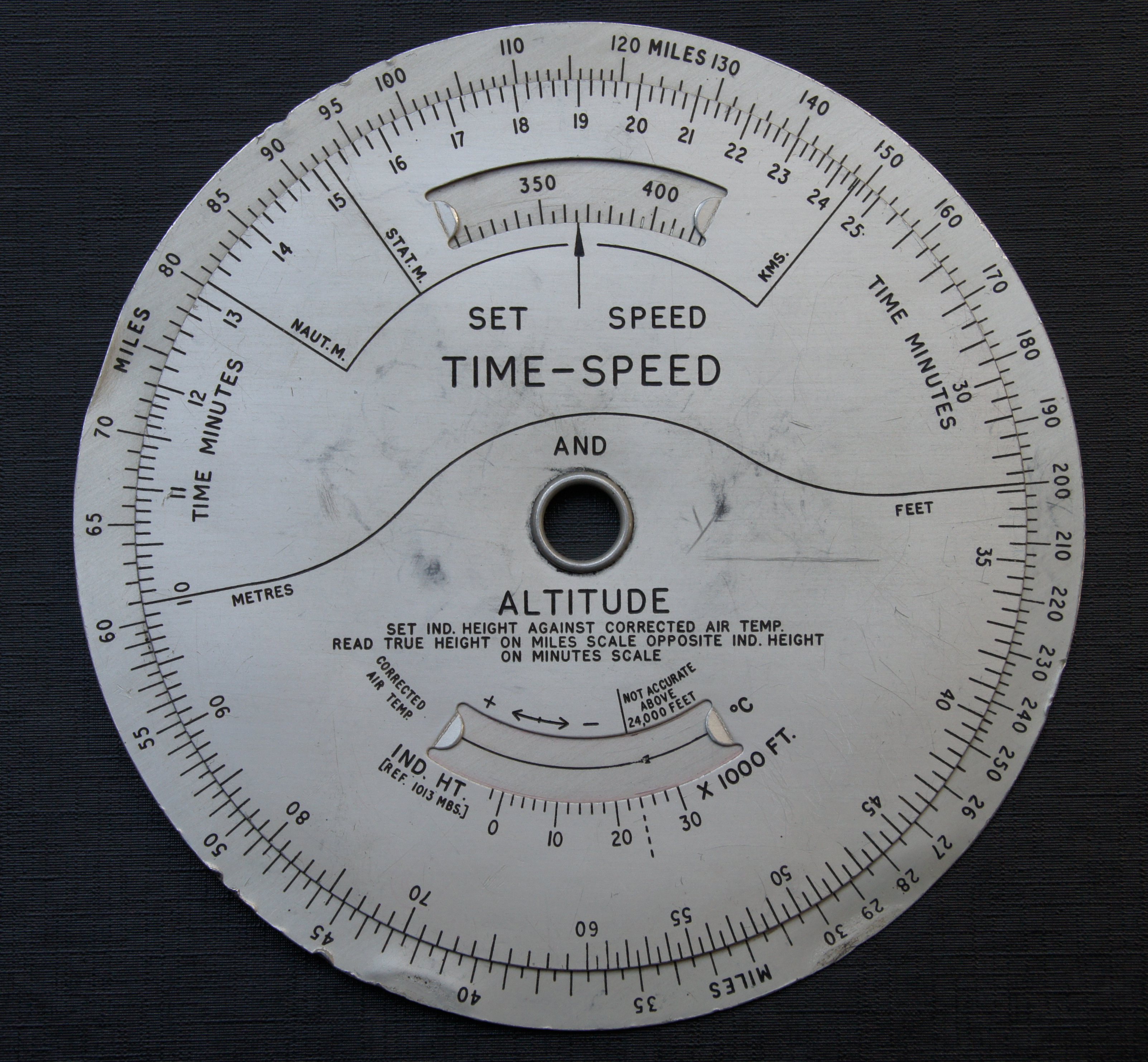 Backside of the 6B/345 Air Speed Calculator made by The London Name Plate MFG. CO. LTD. This tool was used during the 1960ies and 1970ies by flight crews of the German Air Force.